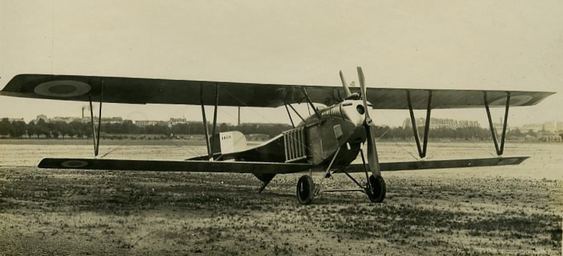 Nieuport 15 front quarter